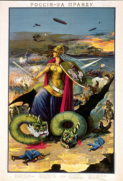 Russia stands for truth. World War I poster. The double-headed dragon shows the beards of the Austrian Emperor and the German Emperor